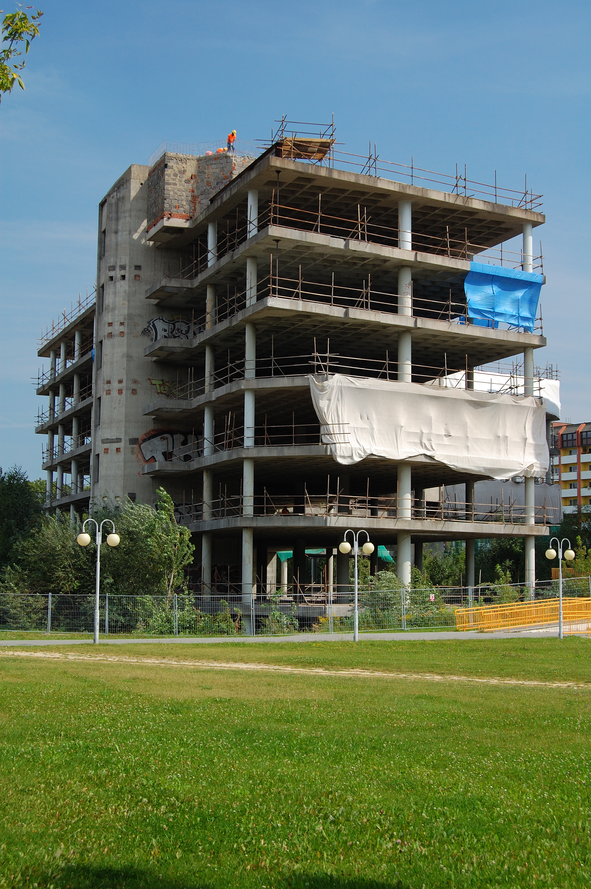 More than twenty years old skeleton of never-finished local headquarters of the Communist party in Ostrava, Czech republic.